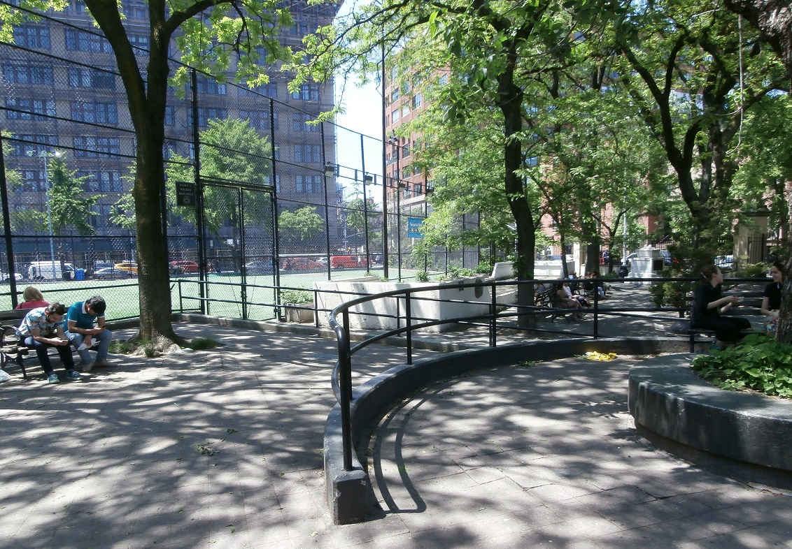 View inside James J. Walker Park